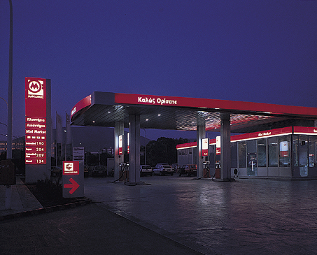 Petrol station of Mamidakis company, in Greece